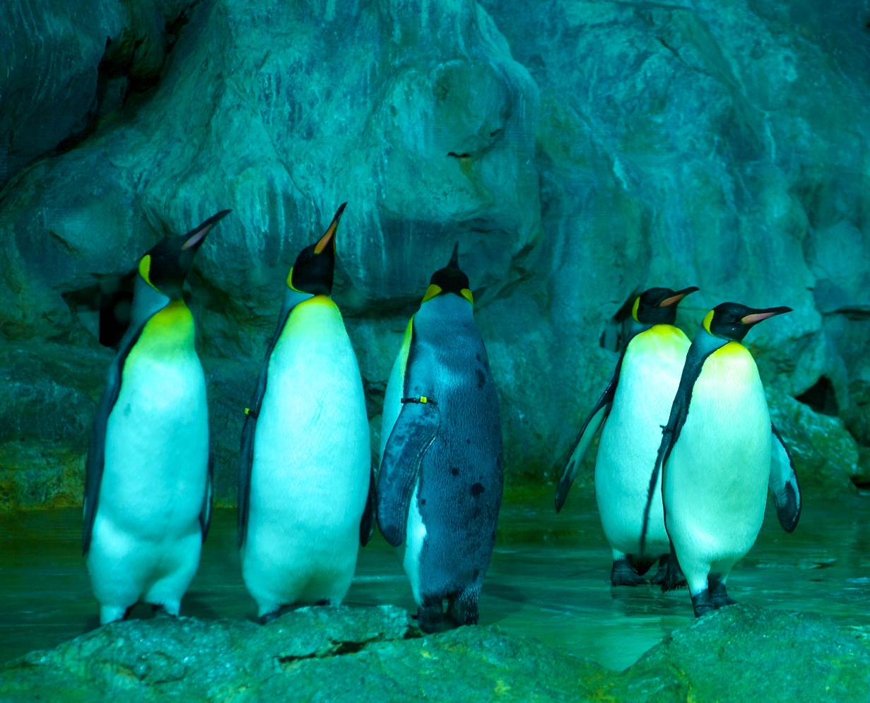 Standing around and enjoying cool air-conditioning in the middle of Singapore ... what a life ... Needs additional description